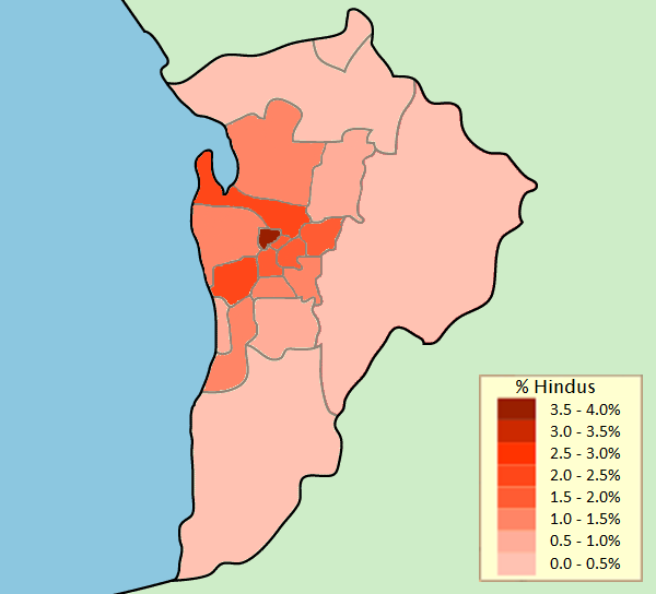 Hinduism in Adelaide LGA's by percentage of population as of the 2011 Australian Census.